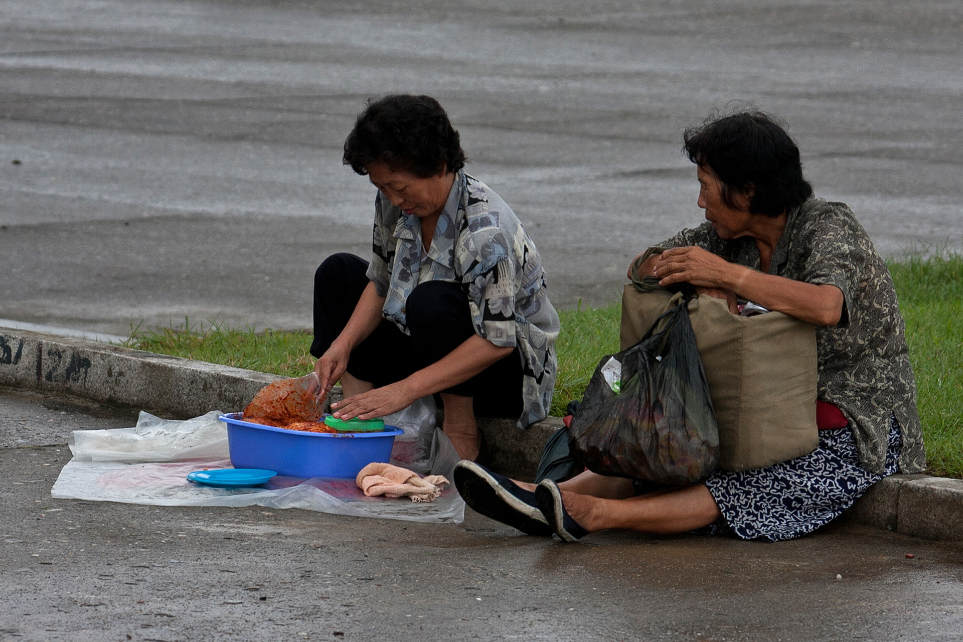 This woman was preparing some food in the square! After I did this picture, she immediately ran away.